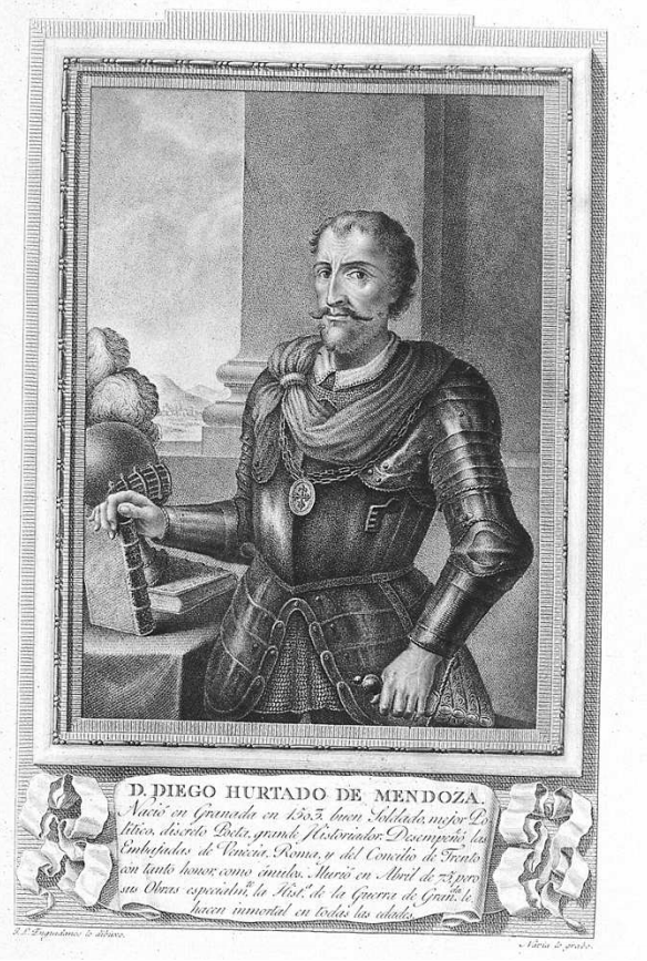 Portrait of Diego Hurtado de Mendoza (Imprenta Real, Madrid, 1791), after José López Enguidanos.